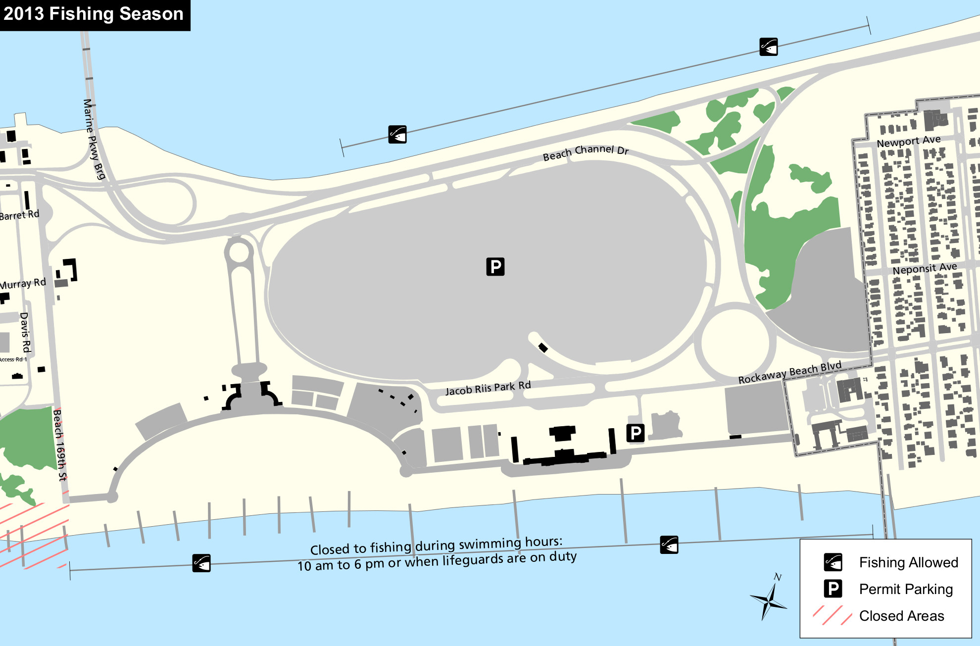 This Jacob Riis Park fishing map shows the public fishing areas located on both the Rockaway Inlet side and Atlantic Ocean side of Jacob Riis Park near the very popular beach.